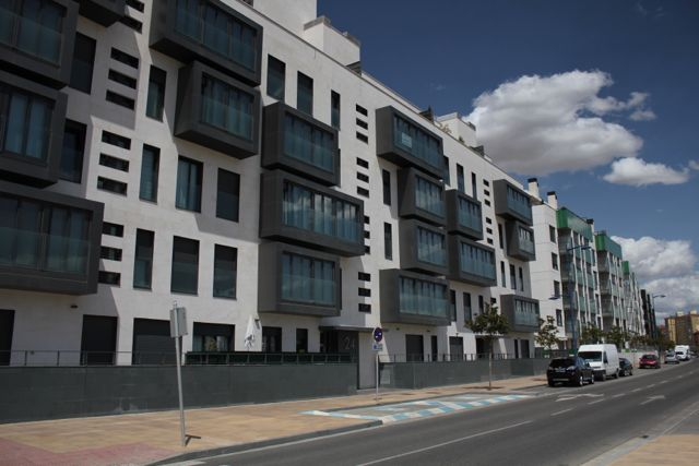 Modern urbanisation development in Burgos Spain